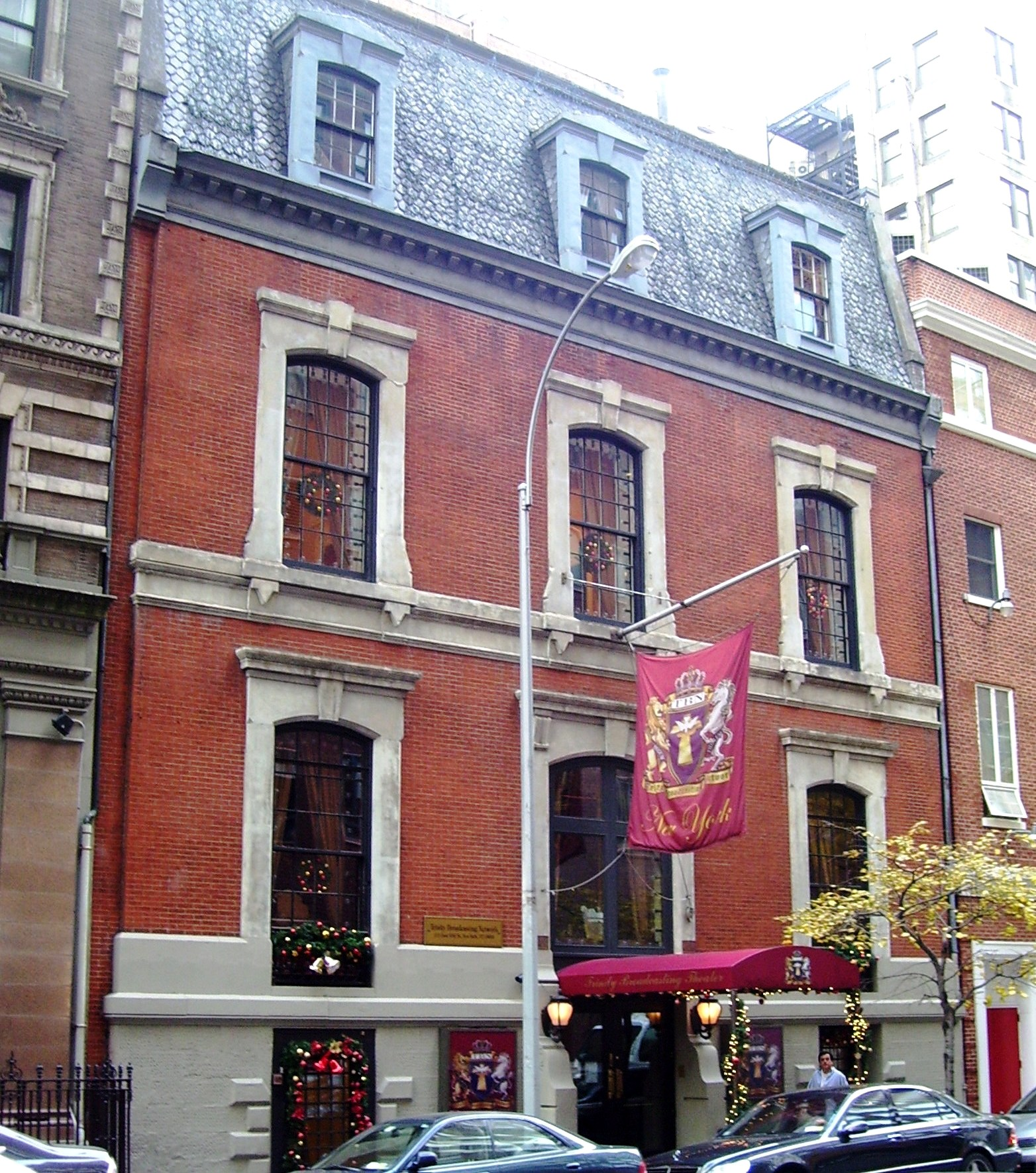 The Century Association's fifth clubhouse, on 109 East 15th Street (originally numbered 42 East 15th Street)